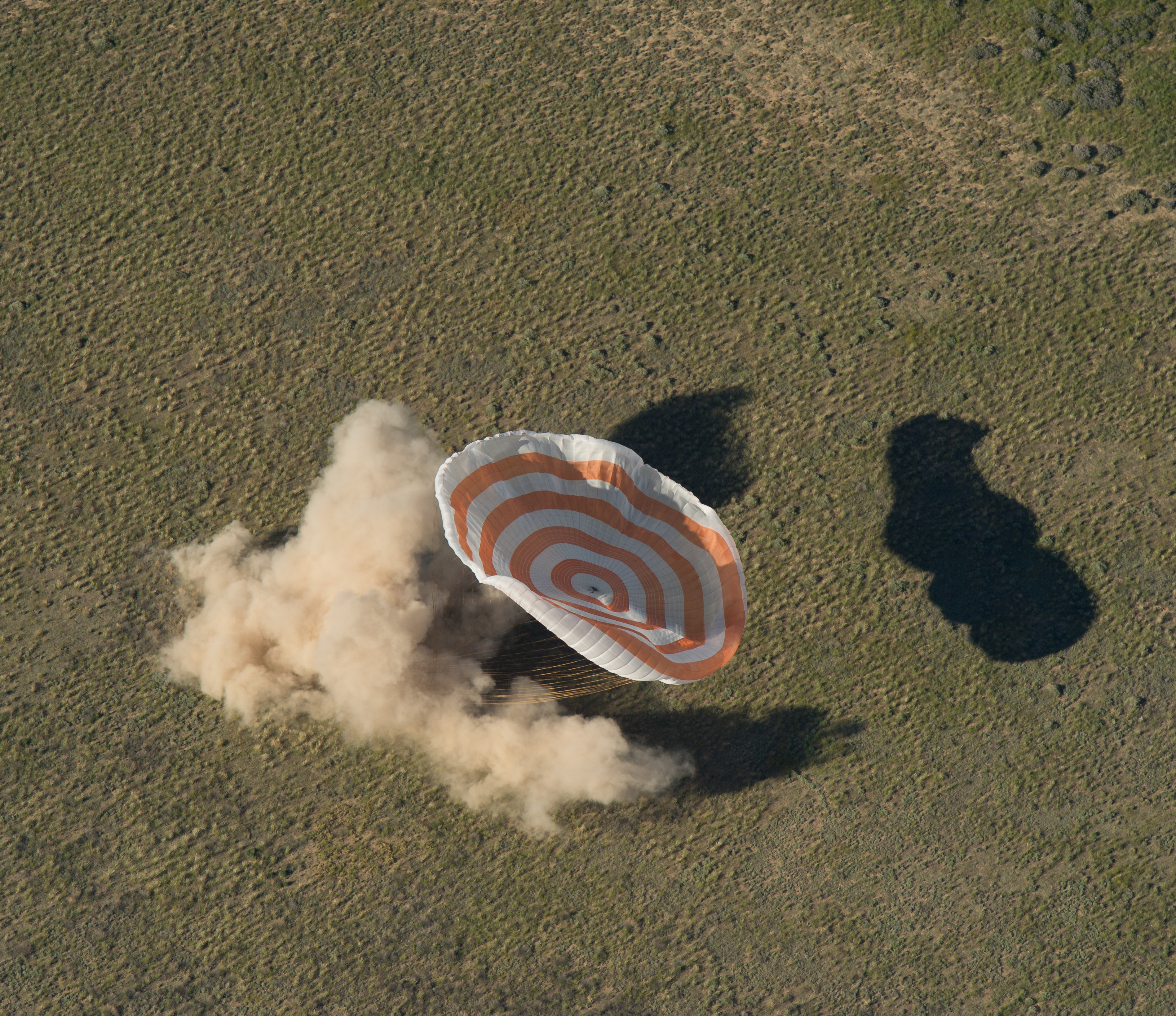 The Soyuz TMA-07M spacecraft is seen as it lands with Expedition 35 Commander Chris Hadfield of the Canadian Space Agency (CSA), NASA Flight Engineer Tom Marshburn and Russian Flight Engineer Roman Romanenko of the Russian Federal Space Agency (Roscosmos) in a remote area near the town of Zhezkazgan, Kazakhstan, on Tuesday, May 14, 2013. Hadfield, Marshburn and Romanenko returned from five months onboard the International Space Station where they served as members of the Expedition 34 and 35 crews.